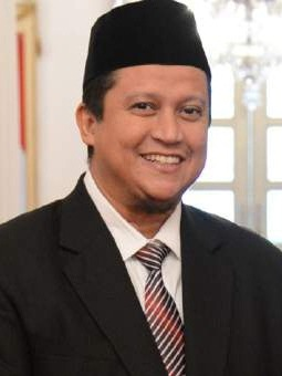 Professor Dr. Muhammad, S.IP., M.Si as a member of the Election Organization Ethics Council for the 2017-2022 period